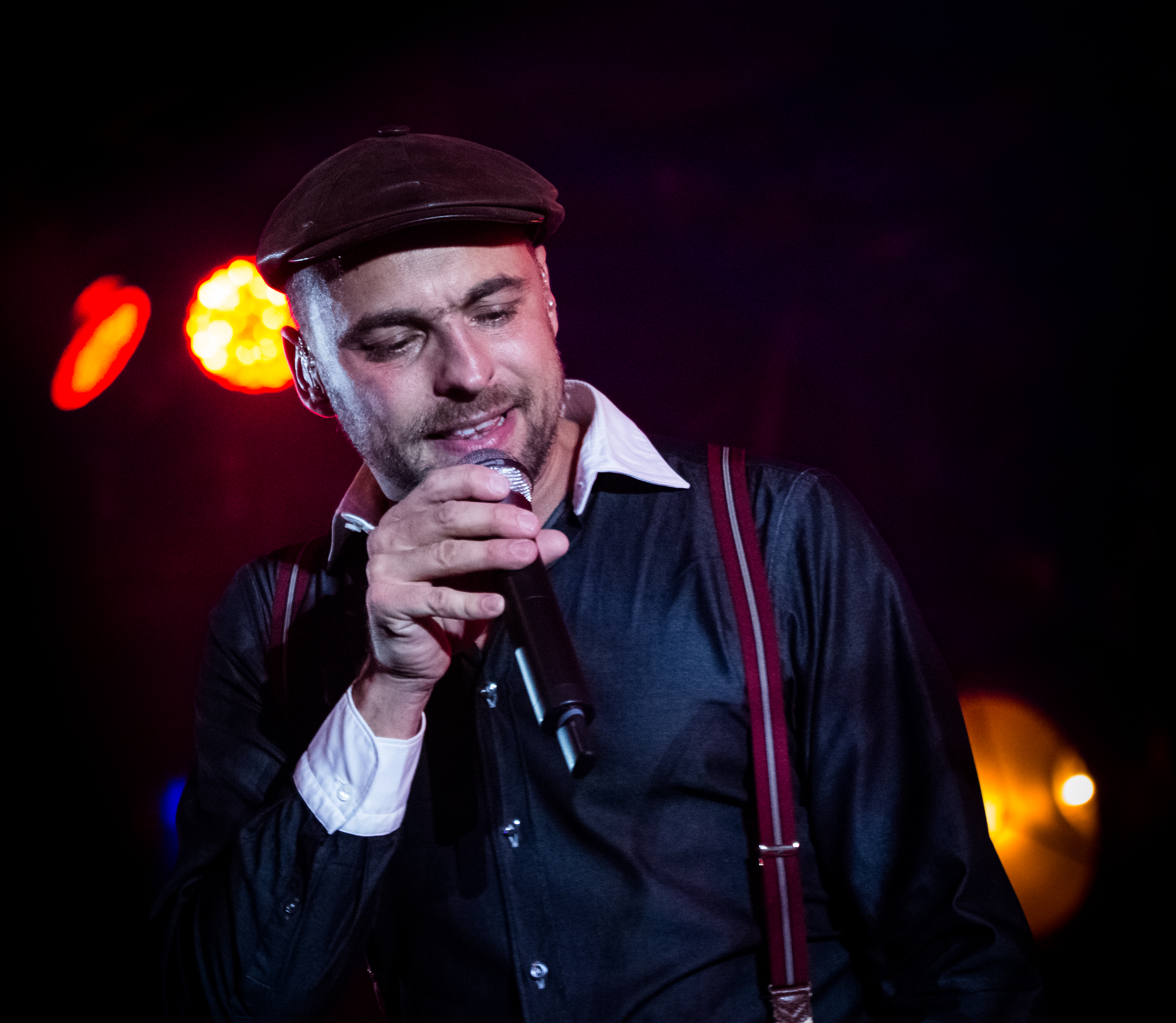 Max Mutzke - Leverkusener Jazztage 2016